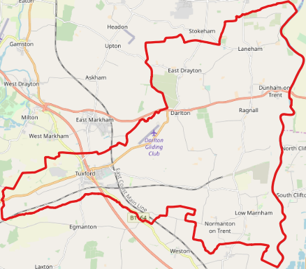 Map of the Tuxford and Trent ward of Bassetlaw. This map may be incomplete, and may contain errors. Don't rely solely on it for navigation.